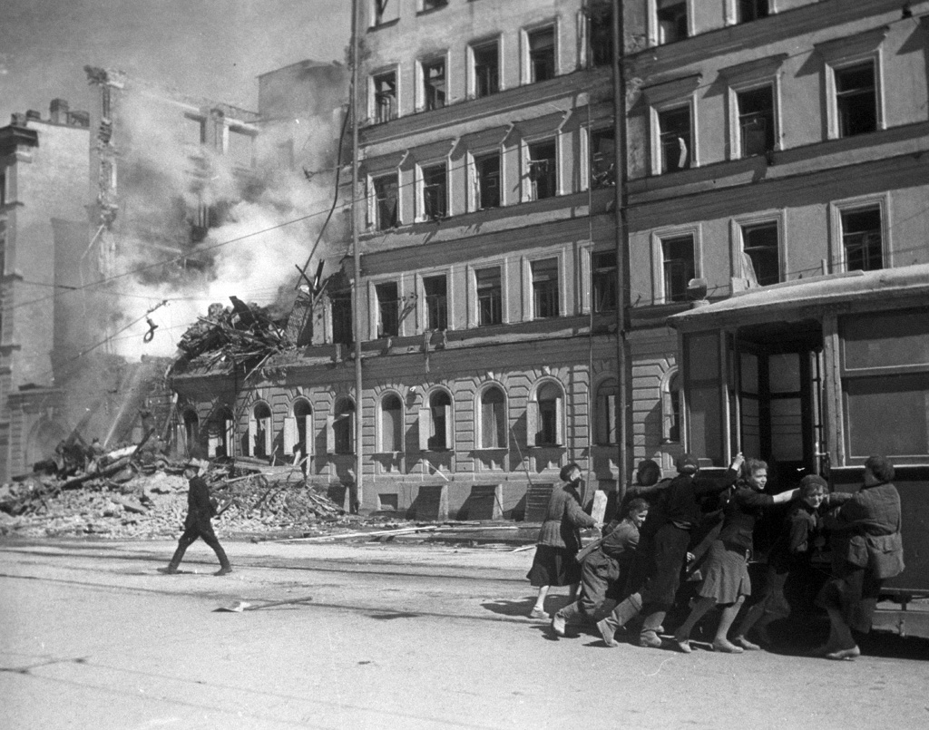 “In a street of Leningrad after German air raid”. In a street of Leningrad after German air raid. The Great Patriotic War of 1941-1945.